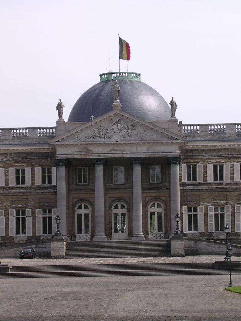 The Royal Palace of Laeken in Brussels, Belgium was built between 1782 and 1784.